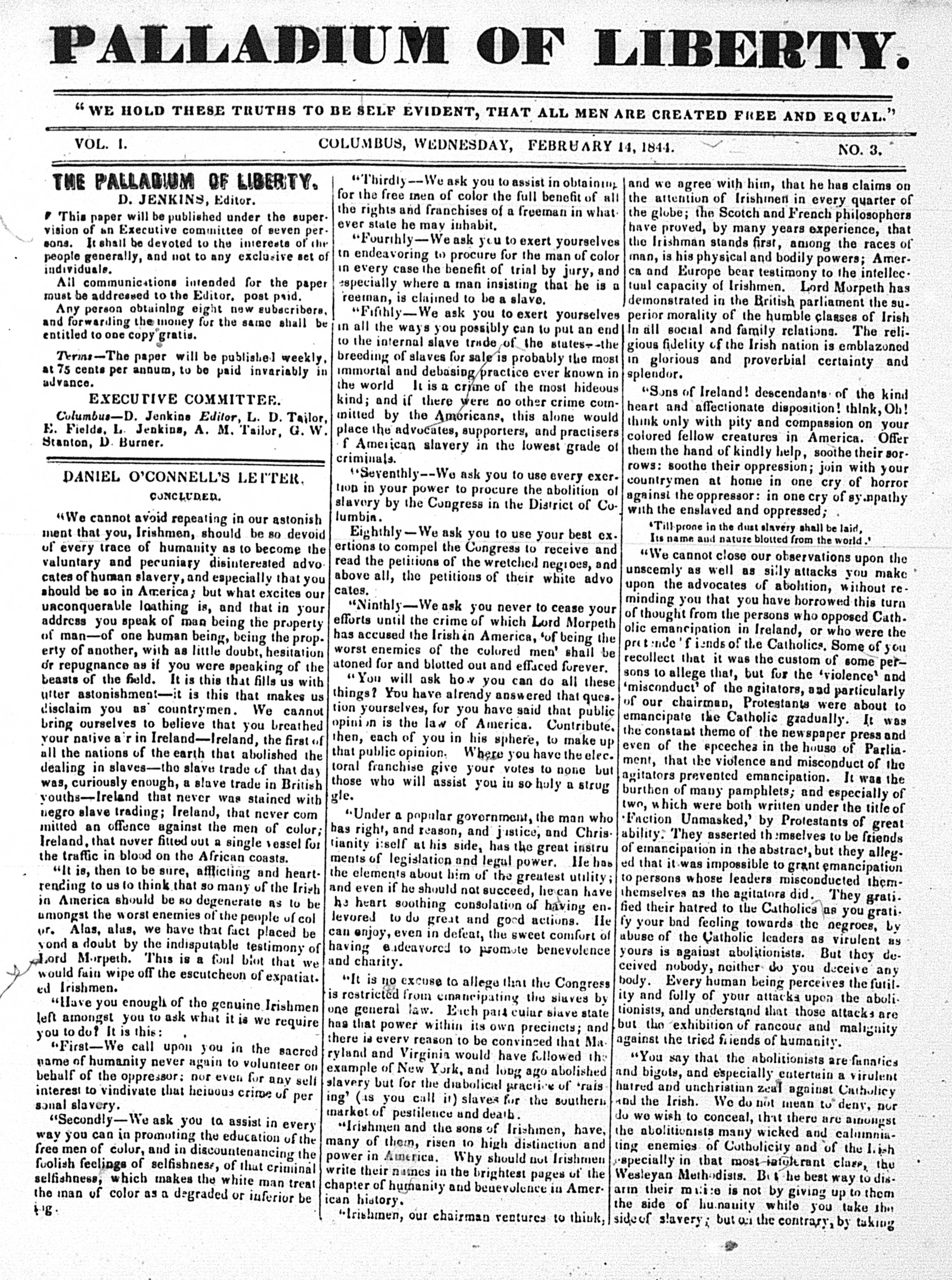 First page of the February 14, 1844 edition of the Columbus, Ohio Palladium of Liberty, which was the first African-American newspaper in Ohio. This issue features the second installment of an open letter from the Irish.